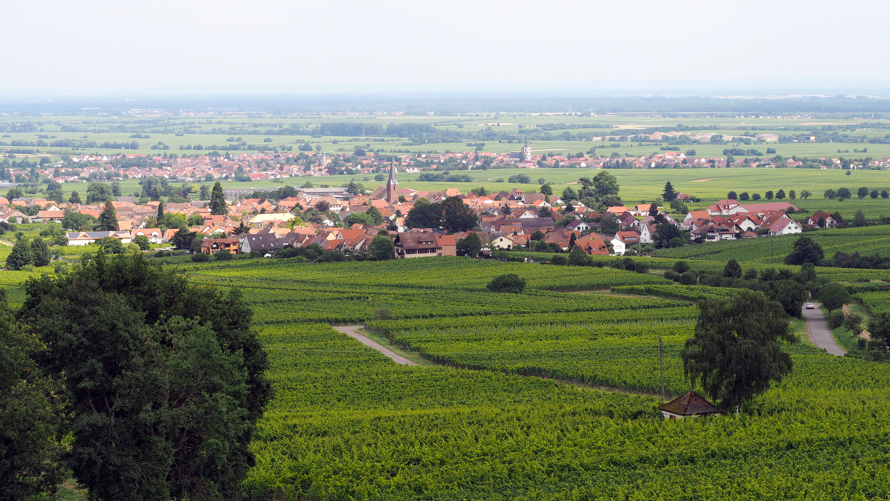 Rhodt unter Rietburg